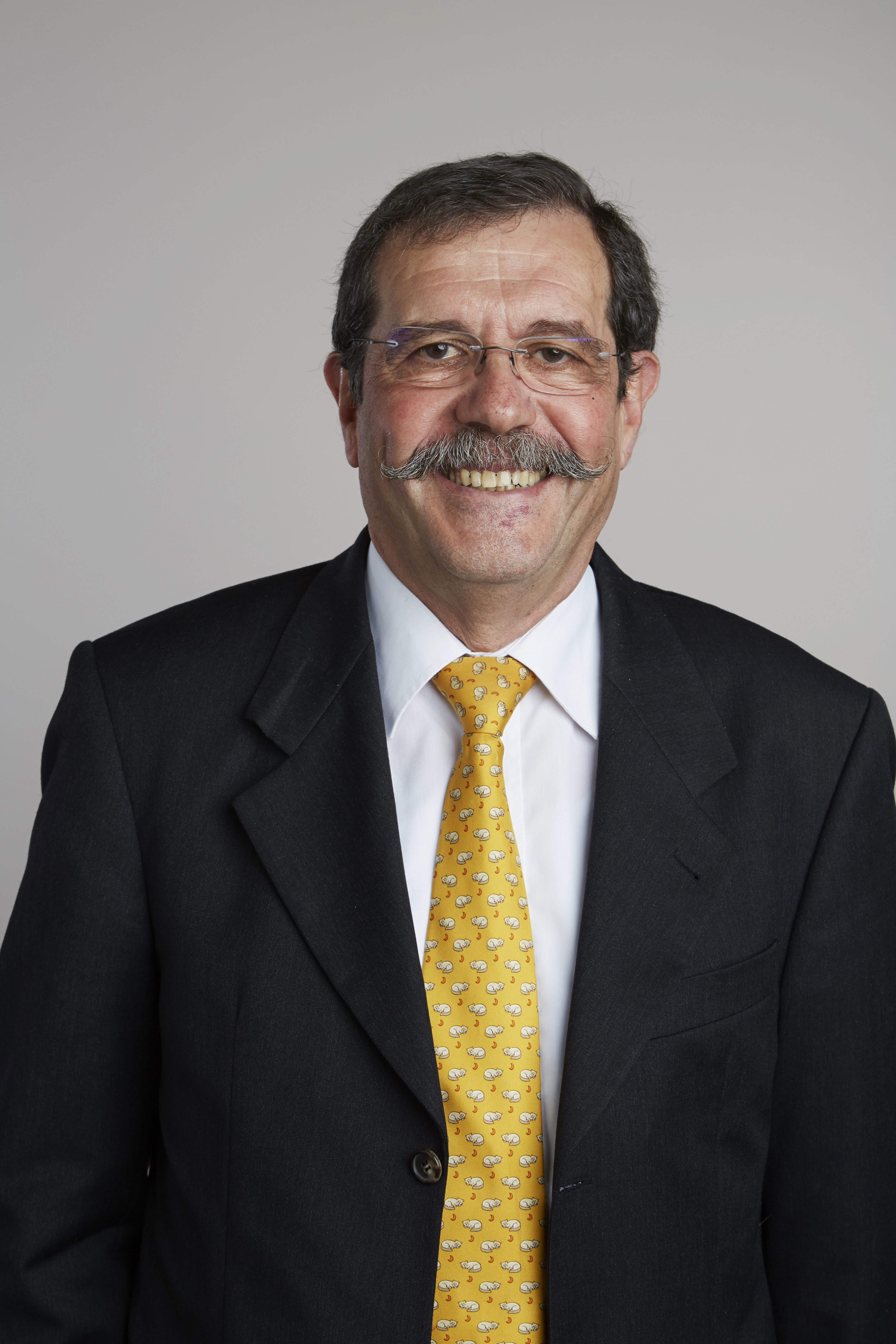 Alain Aspect is known for his experiments illuminating the most intriguing properties of quantum mechanics. His Bell's inequalities tests with pairs of entangled photons (1982) have contributed to settle a debate between Albert Einstein and Nils Bohr, started in 1935. He has also, with Philippe Grangier, given a striking demonstration of wave-particle duality for a single photon, and realized the Wheeler's delayed choice experiment. After his contribution to the development of laser cooling of atoms, with Claude Cohen-Tannoudji (1985-1992), he has switched to atom optics, where the group he has established revisits landmarks in quantum optics and develops quantum simulators of disordered materials. A professor at the Institut d'Optique graduate school and at Ecole Polytechnique (University Paris-Saclay), he is a member of several academies (France, USA, Austria). Among the awards he has received: the CNRS gold medal (2005), the Wolf prize in Physics (2010), the Nils Bohr Gold medal and the Albert Einstein medal (2012), the Ives medal/Quinn prize of the OSA (2013), the Balzan prize in quantum information (2014). Attribution: The Royal Society